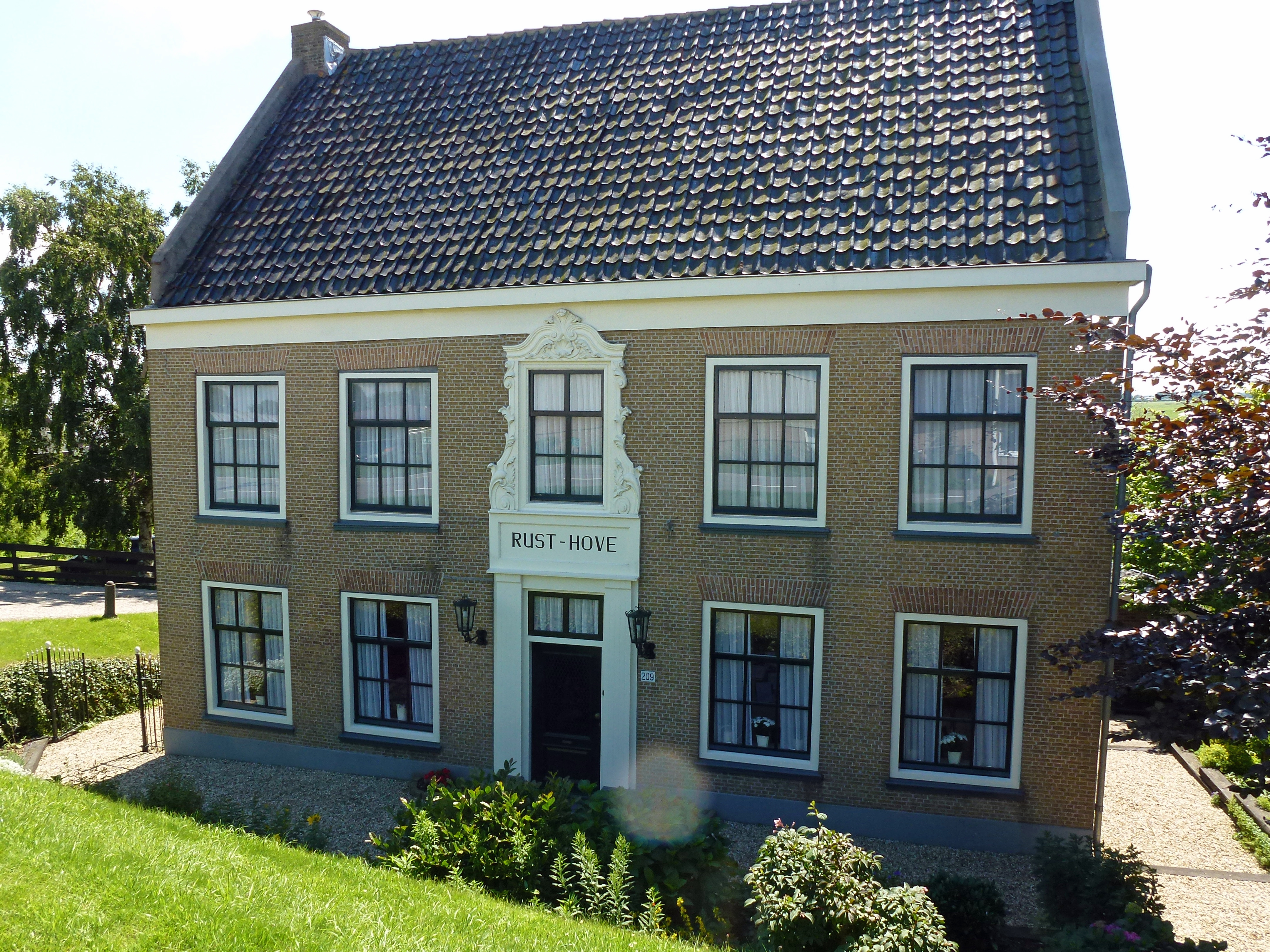 farm in Gouderak